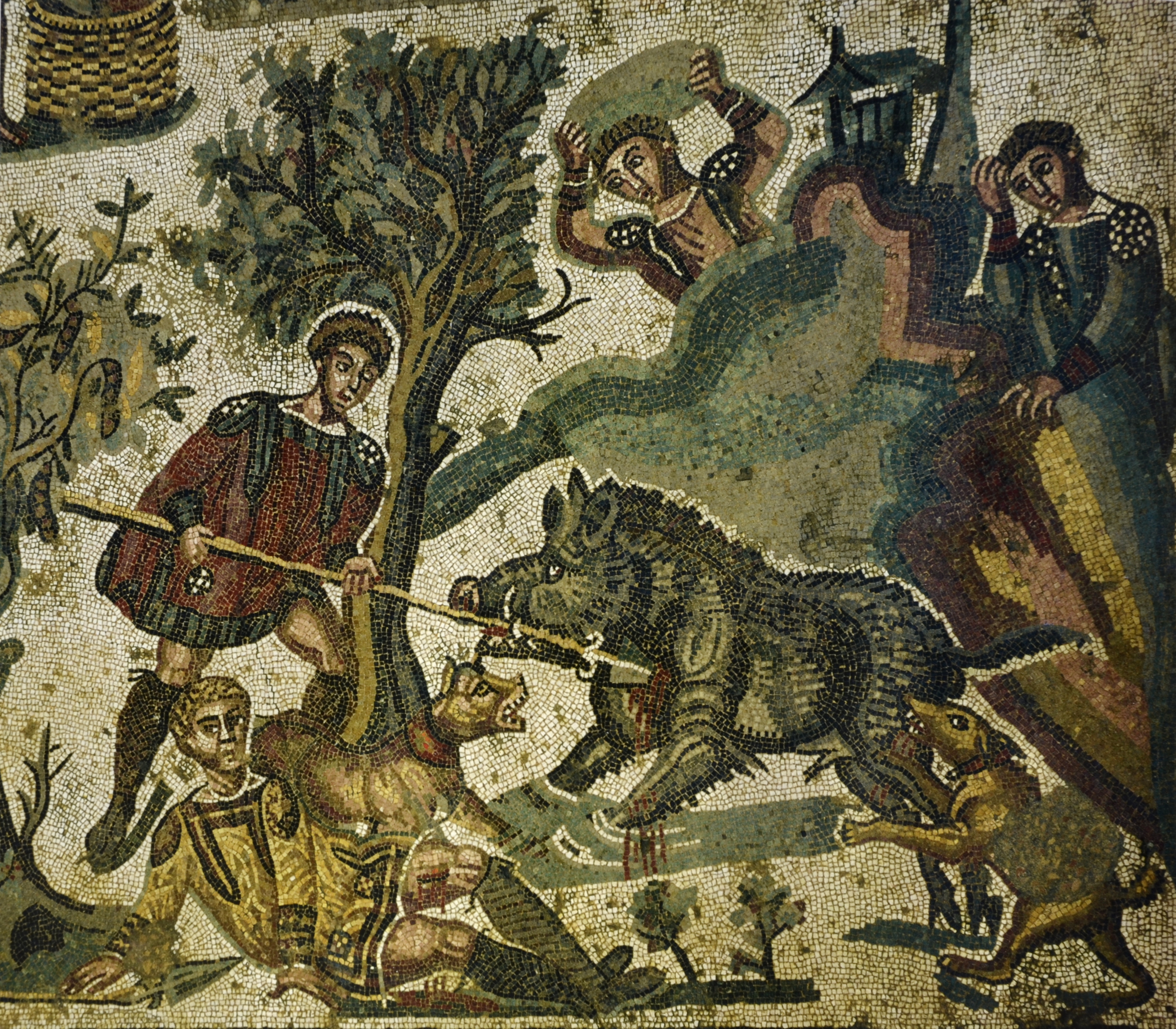 Little Hunt mosaic, Villa del Casale, Piazza Armerina, Sicily, Italy.